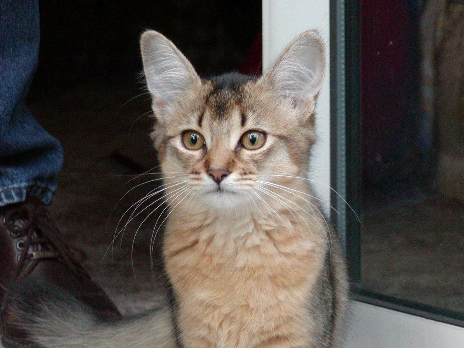 A "usual"-coloured Somali kitten, age 4 months.